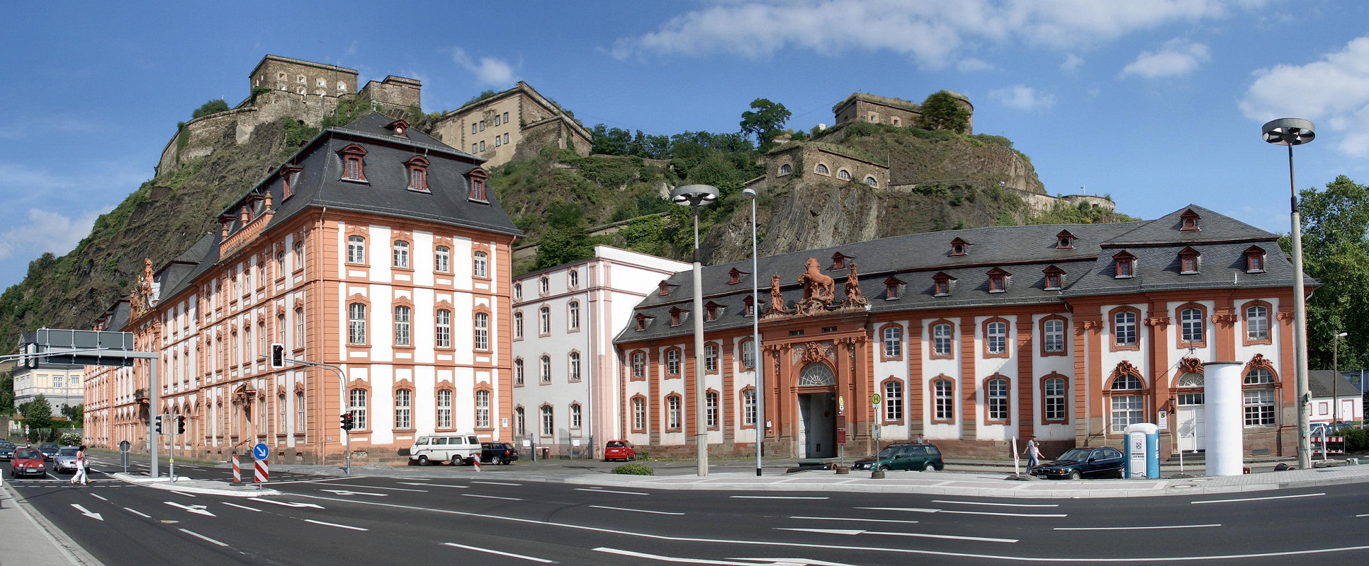 Building belonging to former castle Philippsburg in Koblenz-Ehrenbreitstein